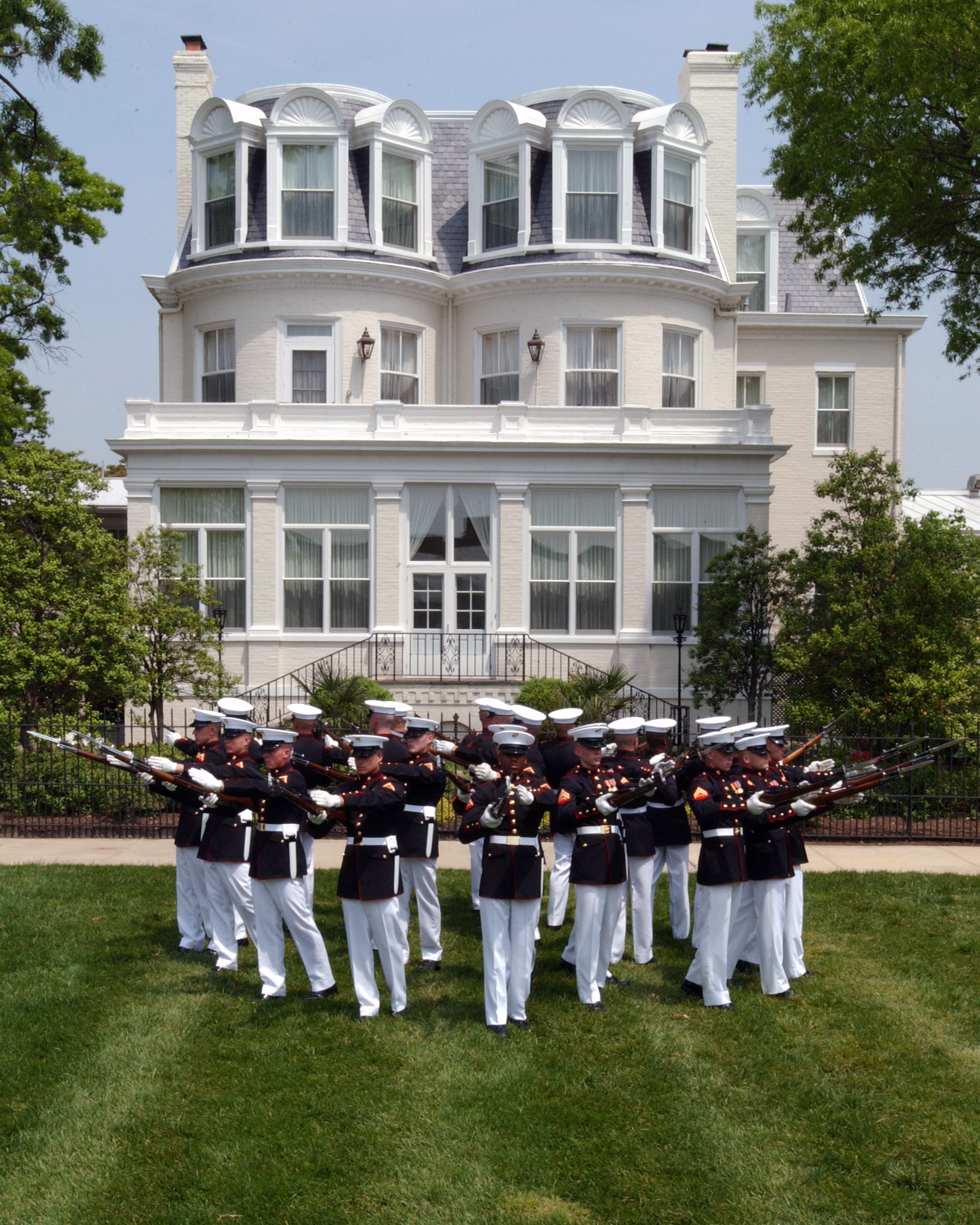 Washington, D.C. (May 11, 2005) - The Silent Drill Platoon (SDP) performs the "Bursting Bomb Formation" in front of the home of the Commandant of the Marine Corps. SDP was providing a special performance, honoring members from the Los Angeles Police Department. The Silent Drill Platoon performs at sunset and evening parades during the summer performance season from May through August at Marine Barracks, Washington, D.C. U.S. Marine Corps Barracks "8th & I".United States Navy photo by Photographer's Mate 2nd Class Rob Rubio (RELEASED)